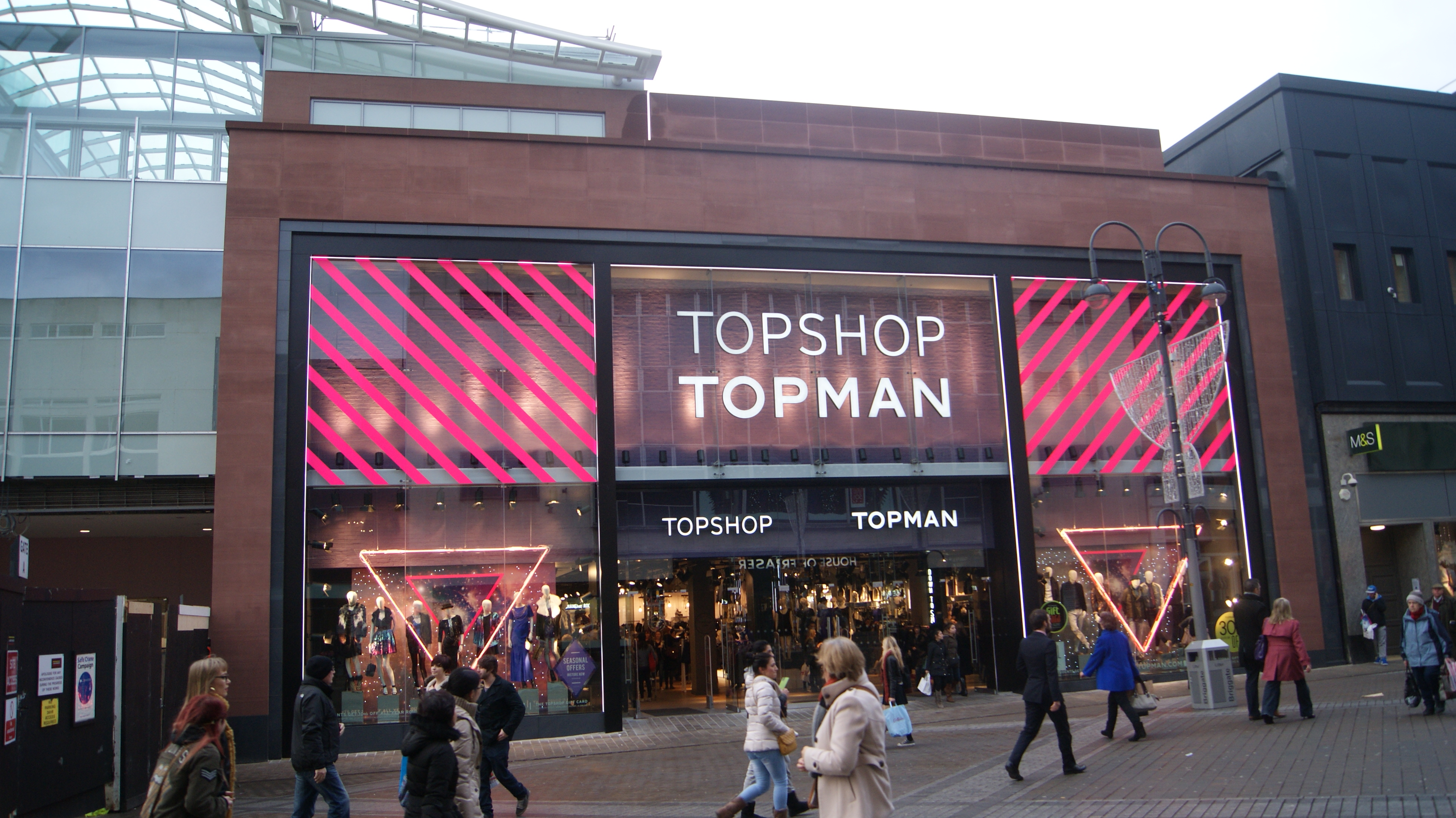 Topshop and Topman (the first part of the Trinity Quarter to open having been seen recently open here, the rest of the construction site can be seen to the left) on Briggate, Leeds, West Yorkshire. Taken on the afternoon of Monday the 17th of December 2012.